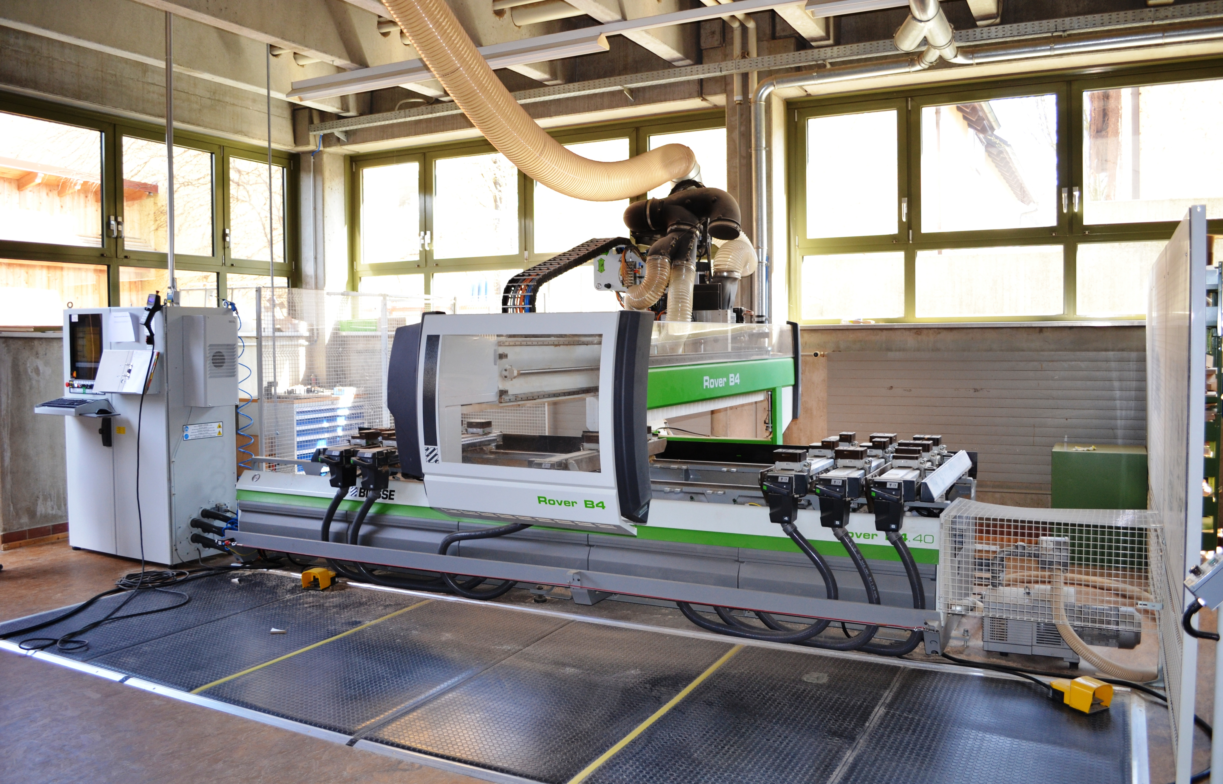 The Biesse Rover B series is designed to be used to process panels and solid wood elements.